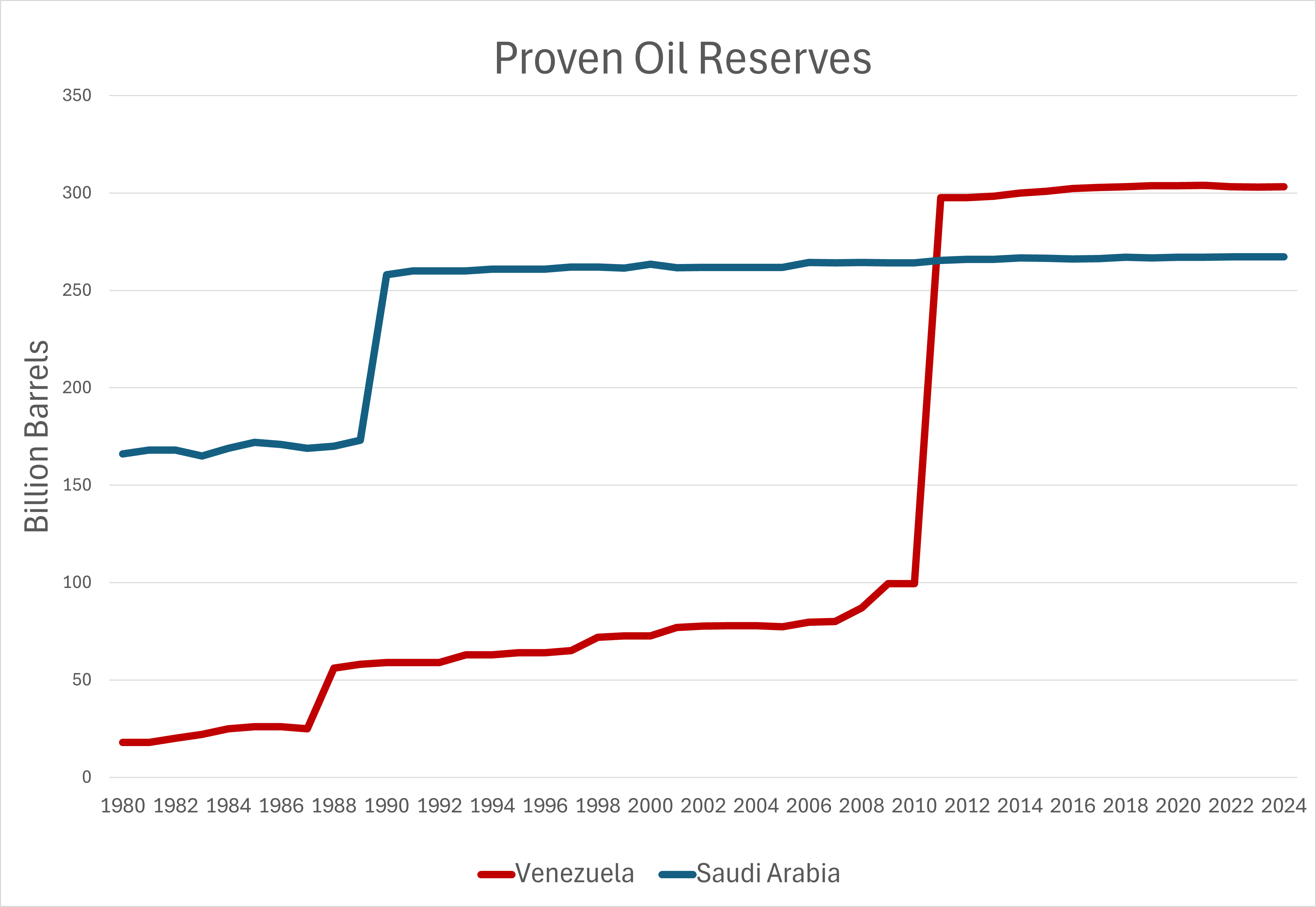 A plot of the reported proven oil reserves for Venezuela and Saudi Arabia. In January 2011, Venezuela claimed to surpass Saudi Arabia as the controller of the world's largest proven reserves. Data for 1980 to 2008 is based on the 2010 world oil report by BP at [1]. Data for 2009 is from OPEC at [2]. The 2011 data point for Venezuela is based on the January 2011 announcement by Hugo Chavez [3]